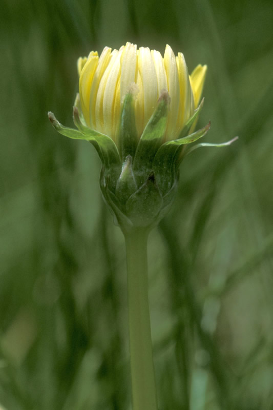 Taraxacum californicum. US Forest Service photo, no copyright.